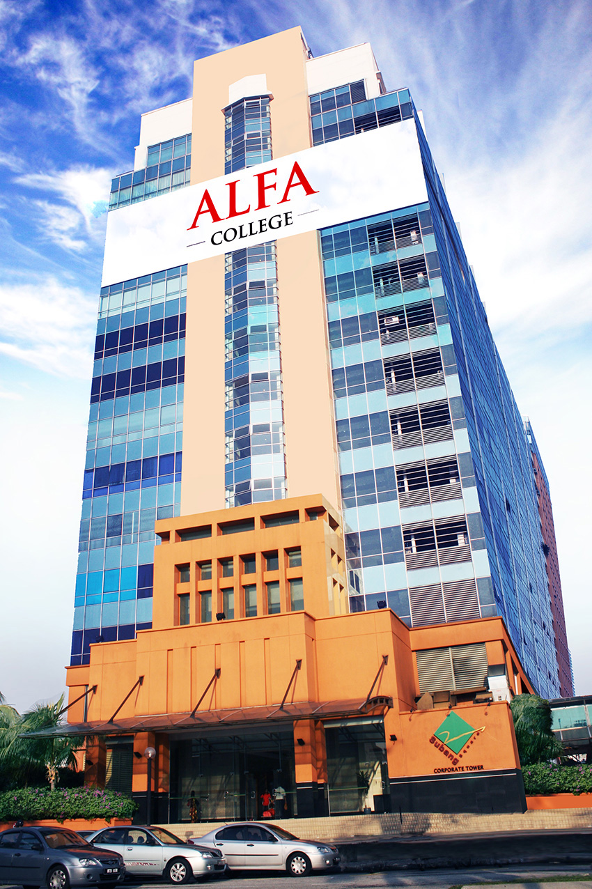 ALFA building